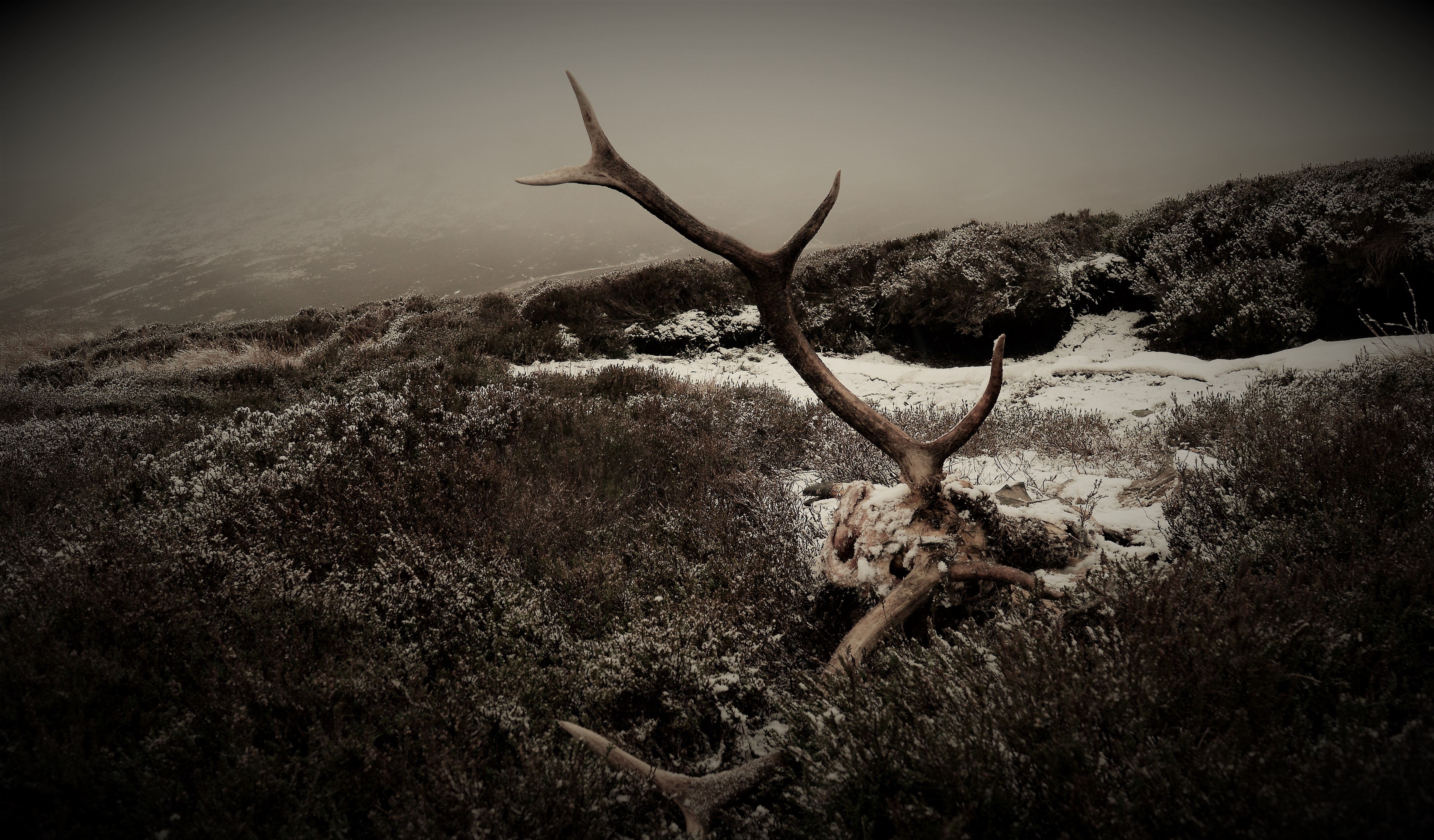 Dead Scottish stag, found while out with golden eagle catching hare, Angus Glens.